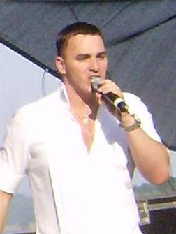 Kirill Andreev, The Russian boy band Ivanushki International (Иванушки International) performing in Berlin, 8 June 2008.